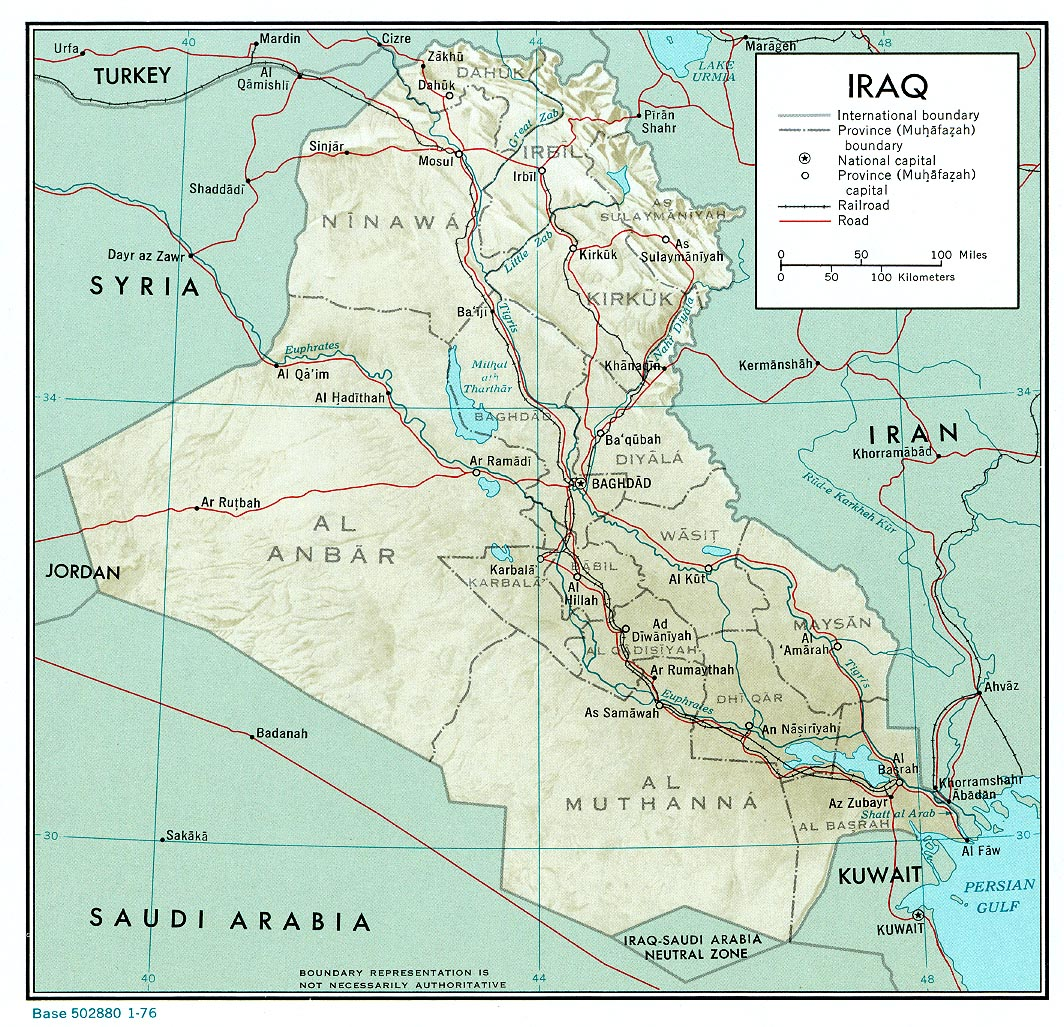 A map of Iraq, drawn in 1976. It shows the old province boundaries and other topographical detail. It is referred to here as a work of the CIA.